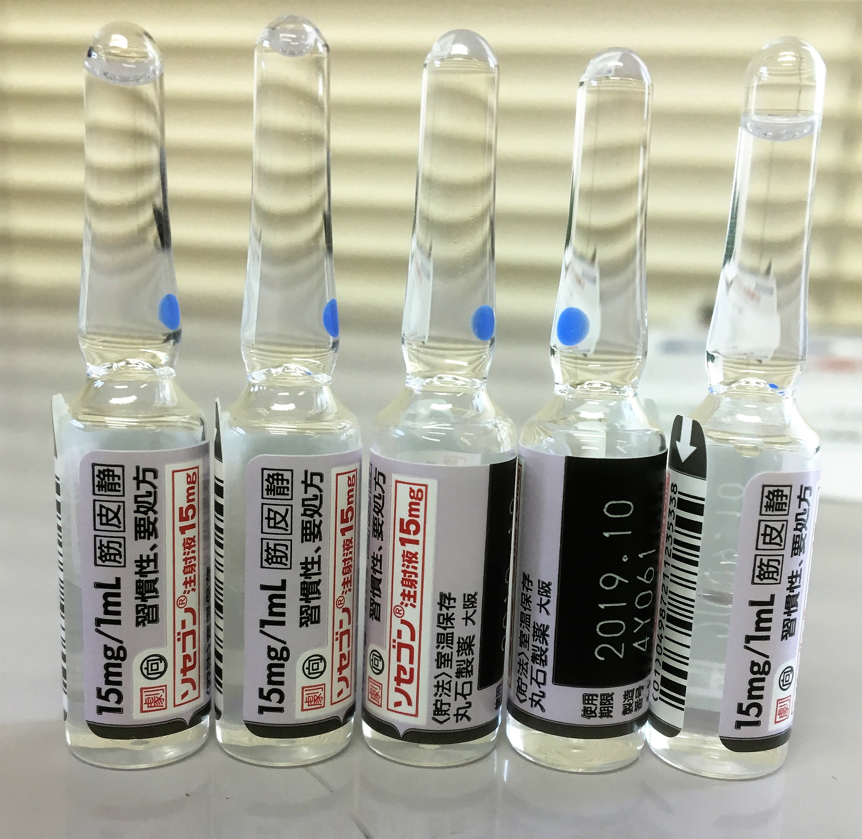 pentazocine (Sosegon) JAPAN